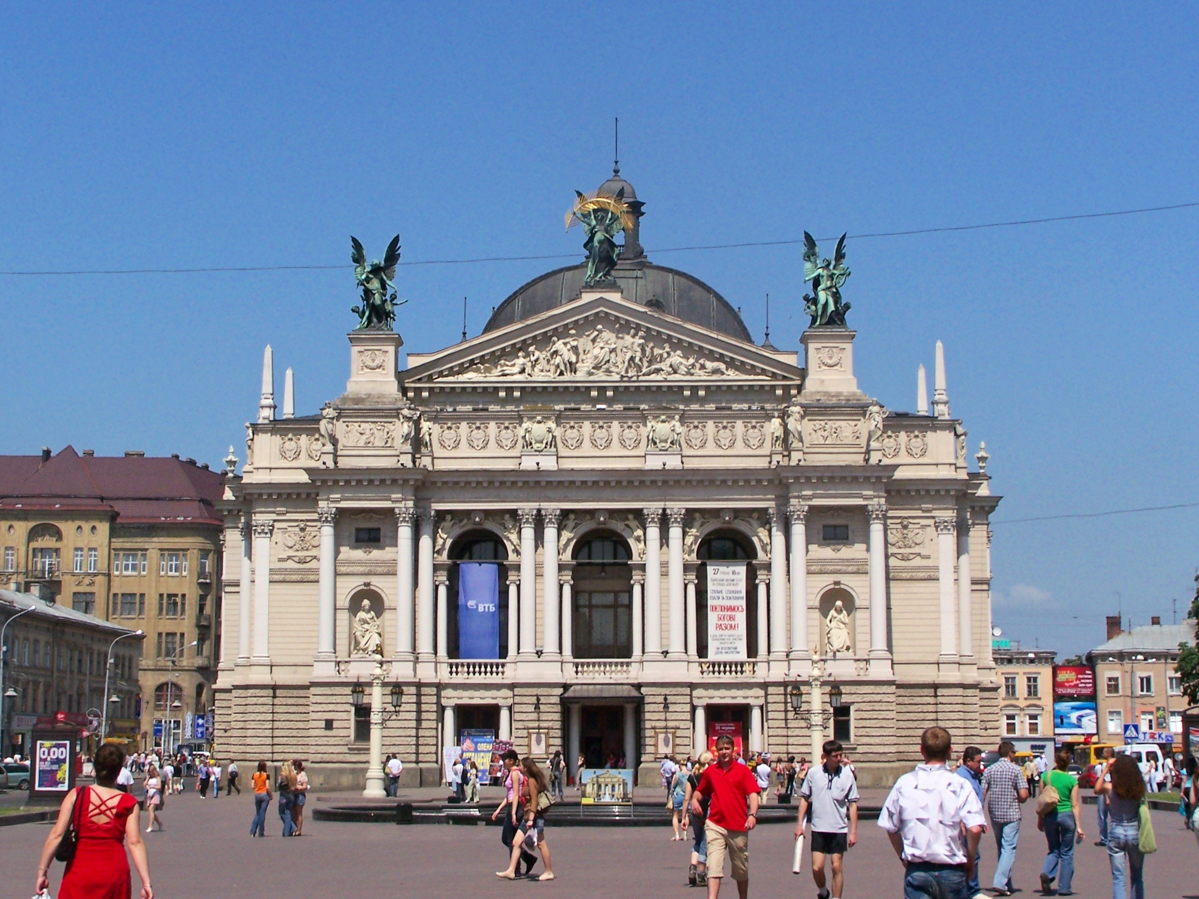 Opera house in Lviv (Ukraine).